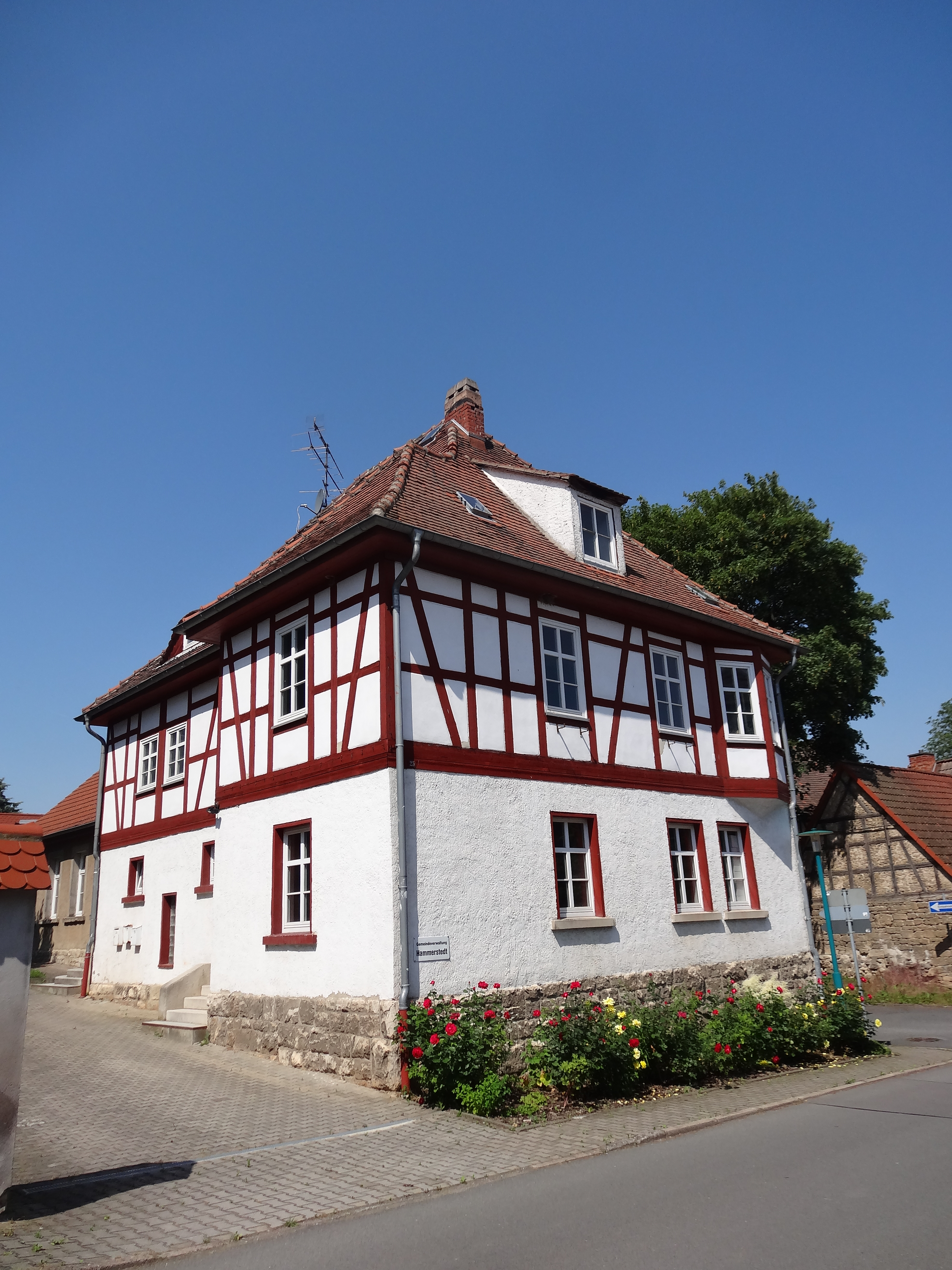 Parish hall in Hammerstedt, Thuringia, Germany